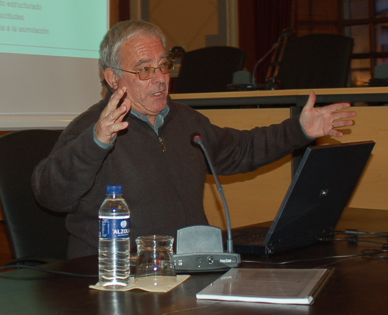 my photo